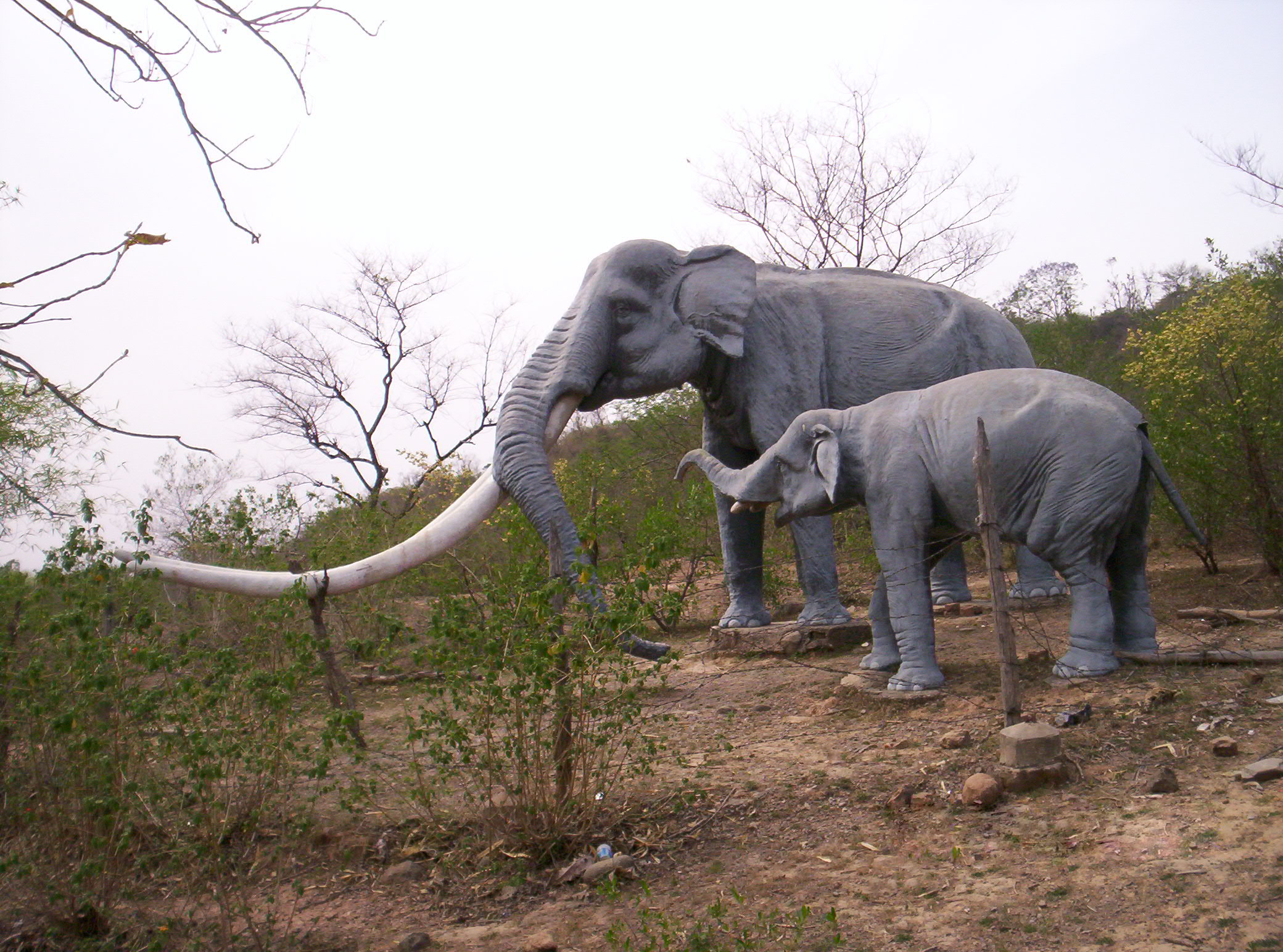 Fibre Glass sized life size model of extinct Elephants (tusks measuring 18 feet) who once lived in Siwalik Hill ranges.